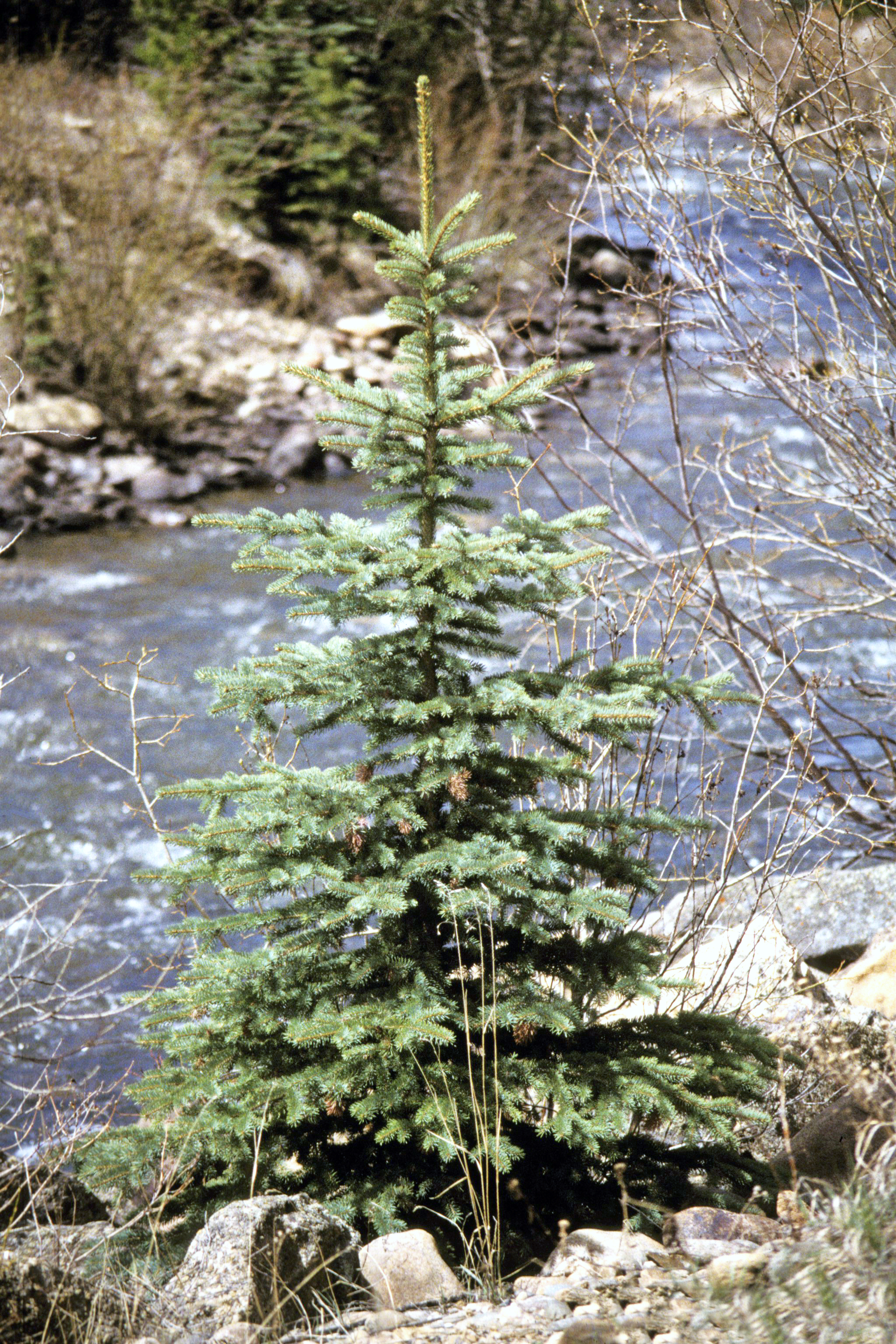 Picea pungens young tree. Rocky Mountain Region, USA.